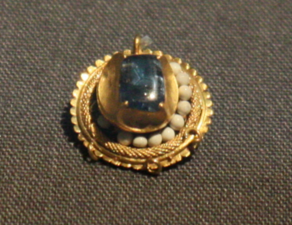 War of the Roses Jewels, Fishpool Hoard, c.1464, Nottinghamshire @British Museum, London